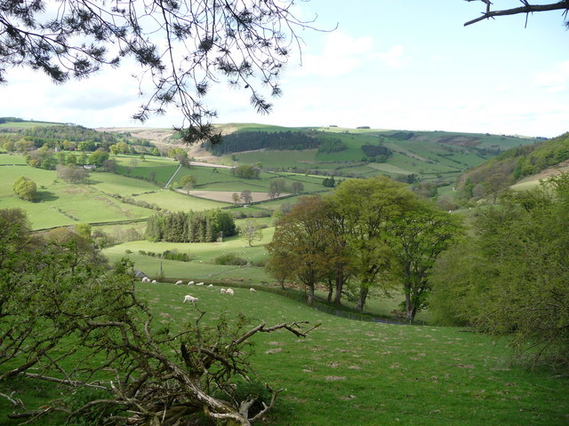 View over part of the Ceiriog Valley, near to Llanarmon Dyffryn Ceiriog, Wrexham/Wrecsam, Great Britain. Taken from a footpath to the south east of the village that climbs up Pen y Glog towards the Upper Ceiriog Way footpath.